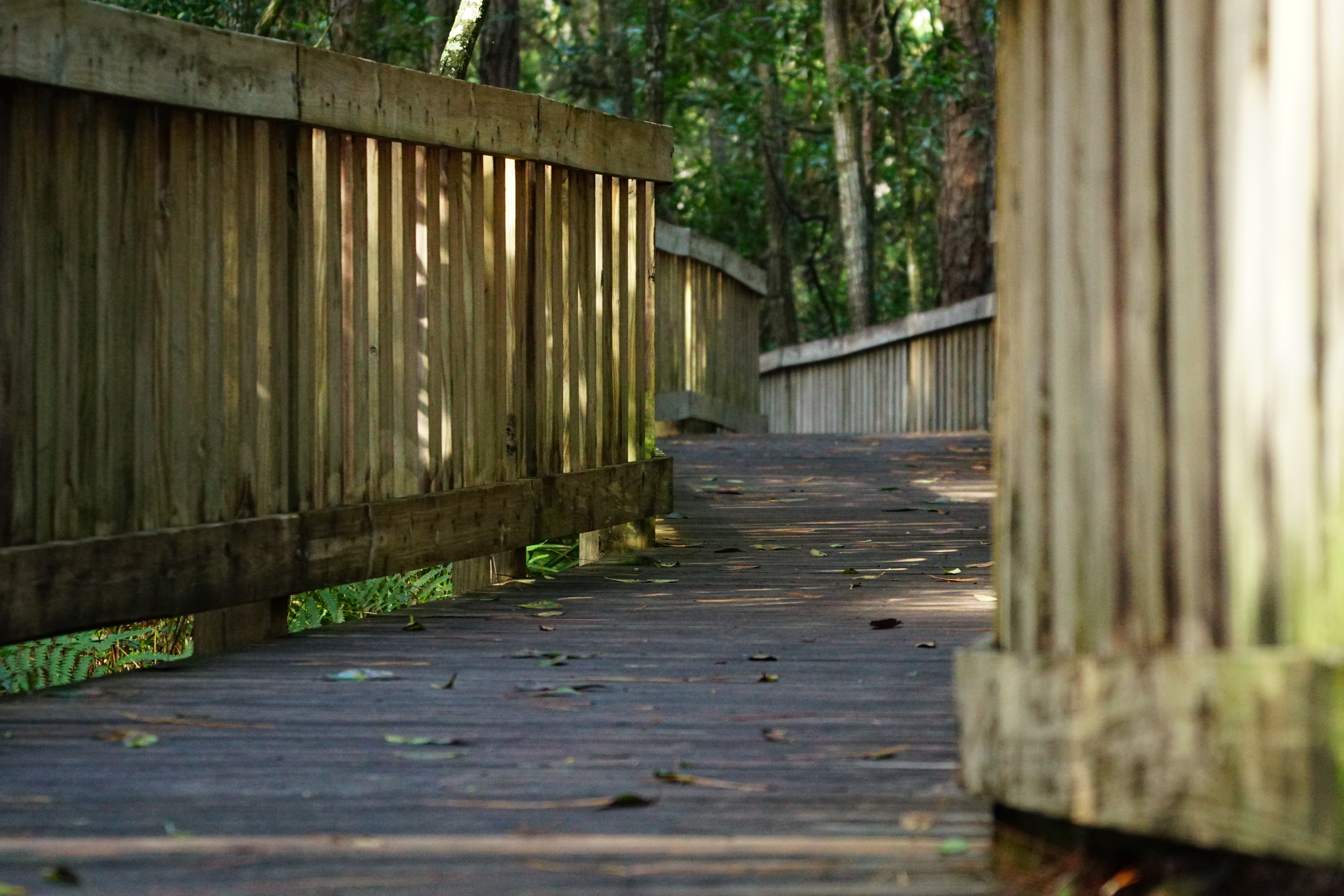 Photograph of the boardwalk at Tibet-Butler Preserve in Orlando, Florida